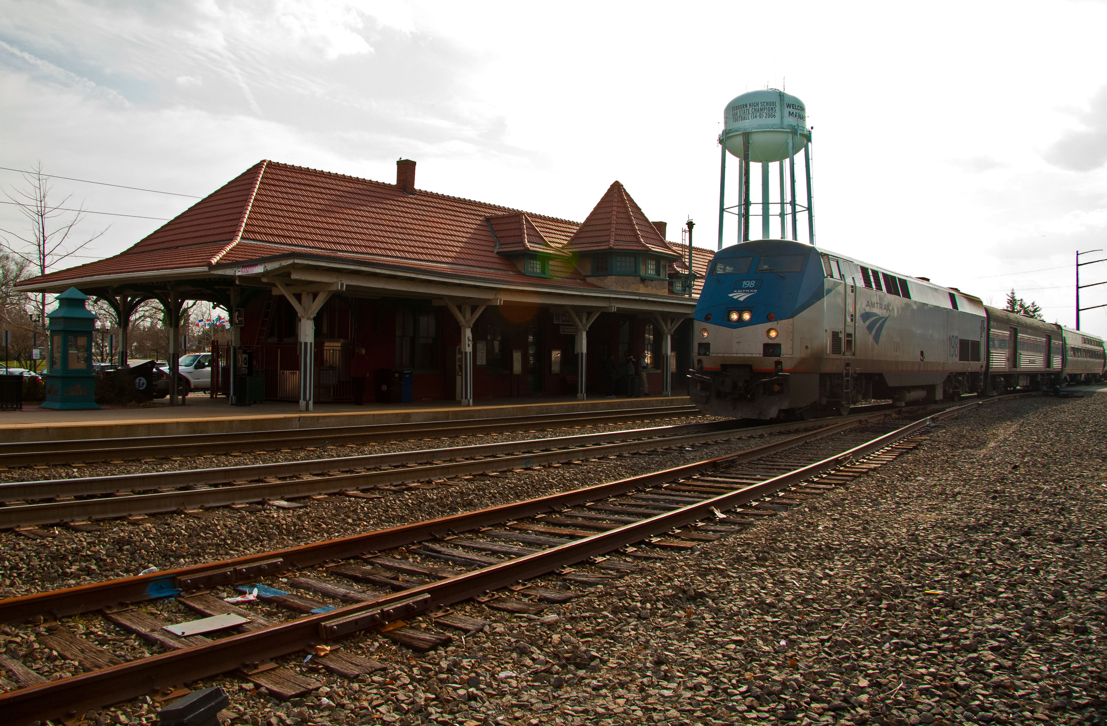 Amtrak 50, the Cardinal, is arriving in Manassas, Virginia on a warm Friday evening. The train left Chicago last evening and is on its way to New York City. The station is shared with Virginia Railway Express commuters and hosts the city's visitors center.